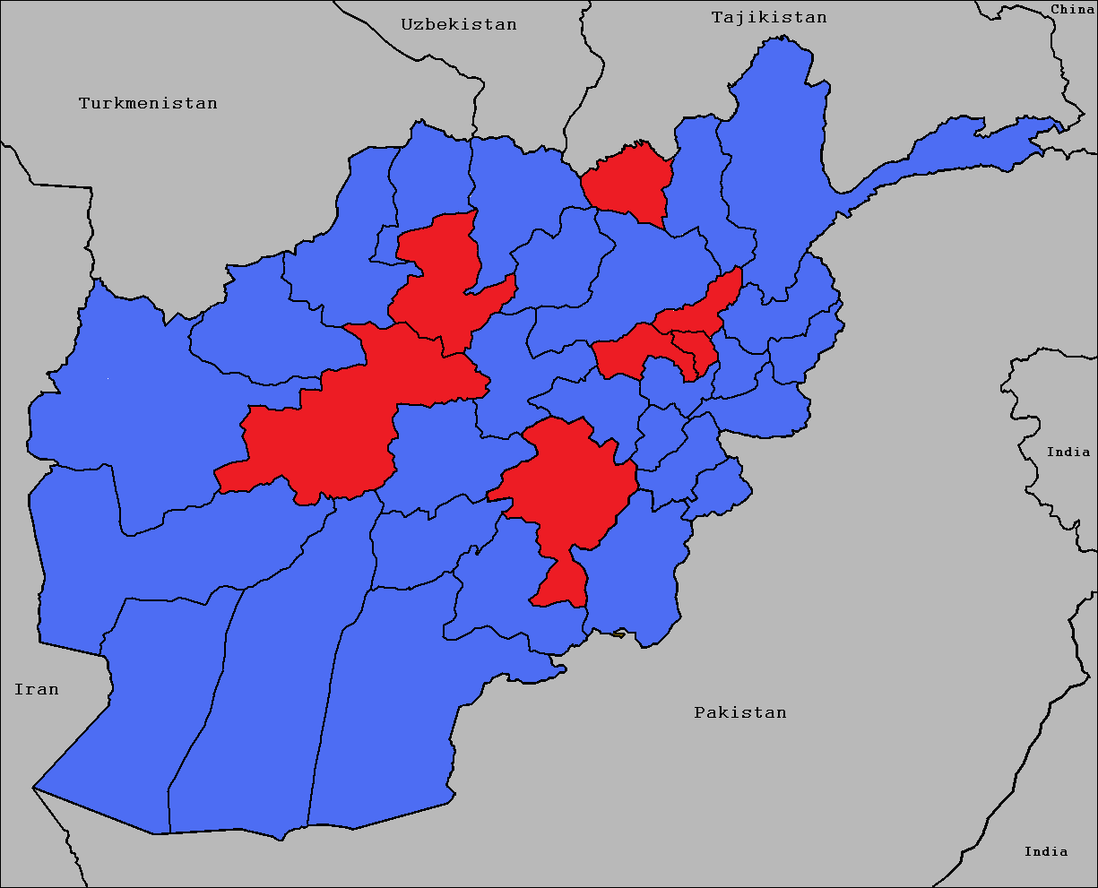 Results of 2009 Afghan elections